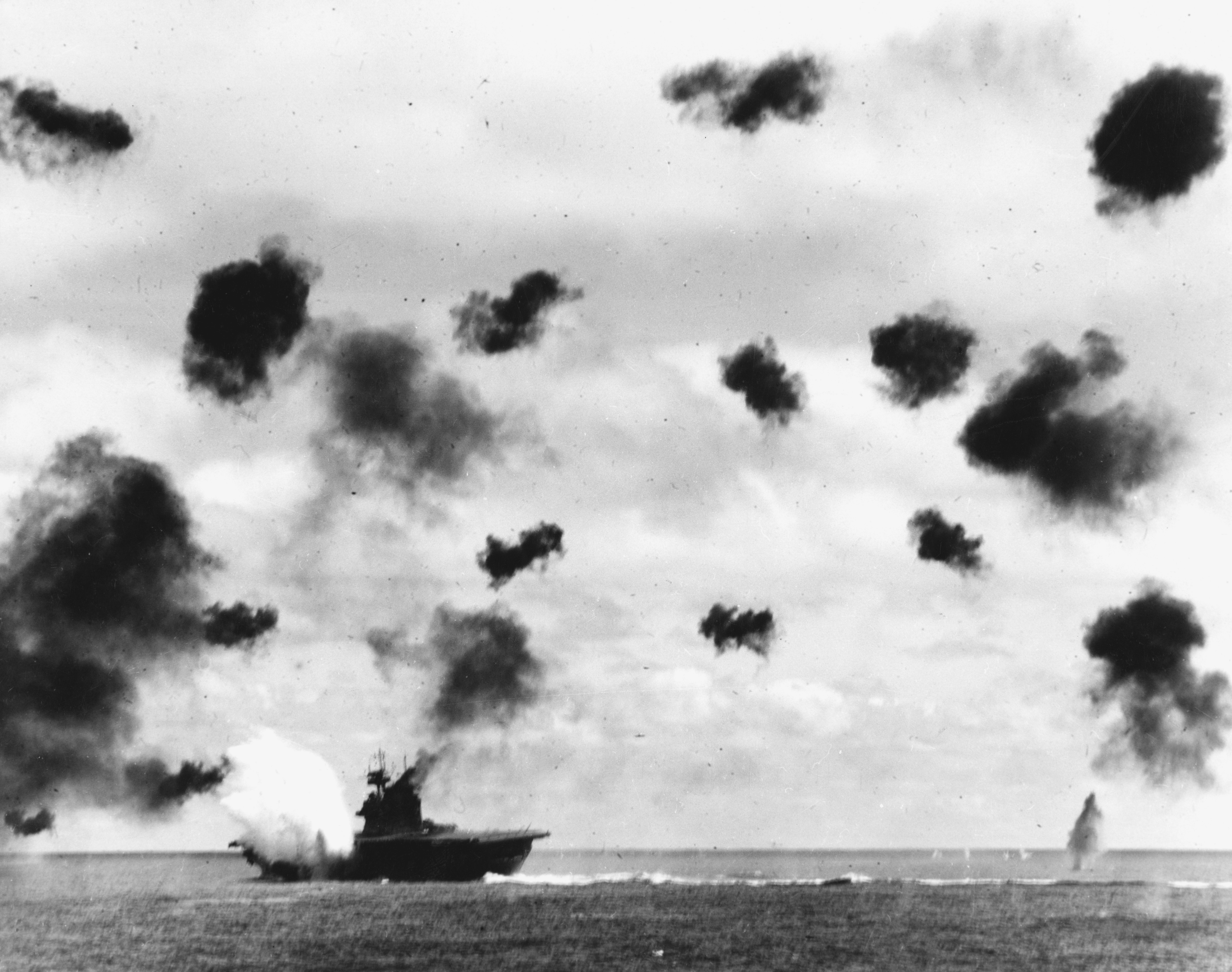 USS Yorktown (CV-5) is hit on the port side, amidships, by a Japanese Type 91 aerial torpedo during the mid-afternoon attack by planes from the carrier Hiryu, in the Battle of Midway, on 4 June, 1942. Yorktown is heeling to port and is seen at a different aspect than in other views taken by USS Pensacola (CA-24), indicating that this is the second of the two torpedo hits she received. Note very heavy anti-aircraft fire.